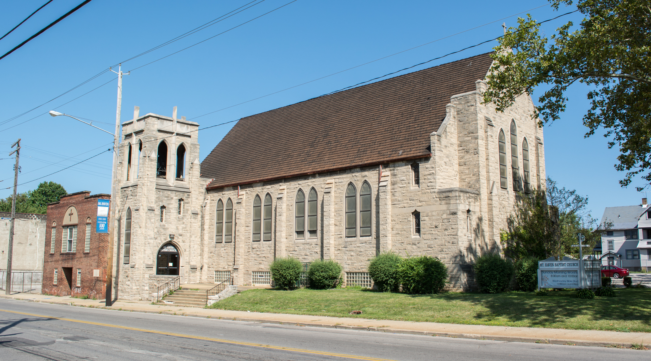 South view of the former Concordia Lutheran Church at 3484 Martin Luther King Jr. Drive in Cleveland, Ohio, in the United States. Concordia Lutheran Church, a congregation for African Americans, was founded 1914, and erected a church building and school in 1916. The church was expanded in 1933. St. Philip's, a Lutheran church located in the Kinsman neighborhood, merged with Concordia Lutheran in September 1965, with the new congregation using Concordia's building. Concordia Lutheran merged with St. John Lutheran in Independence, Ohio, in 1965. The Concordia building was sold to Mt. Haven Baptist Church in 1967.